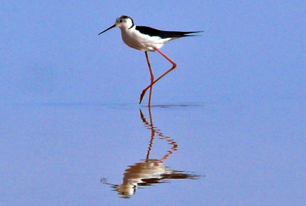 Black-winged Stilt in the marshes of Isla Cristina, Andalucia, Spain.